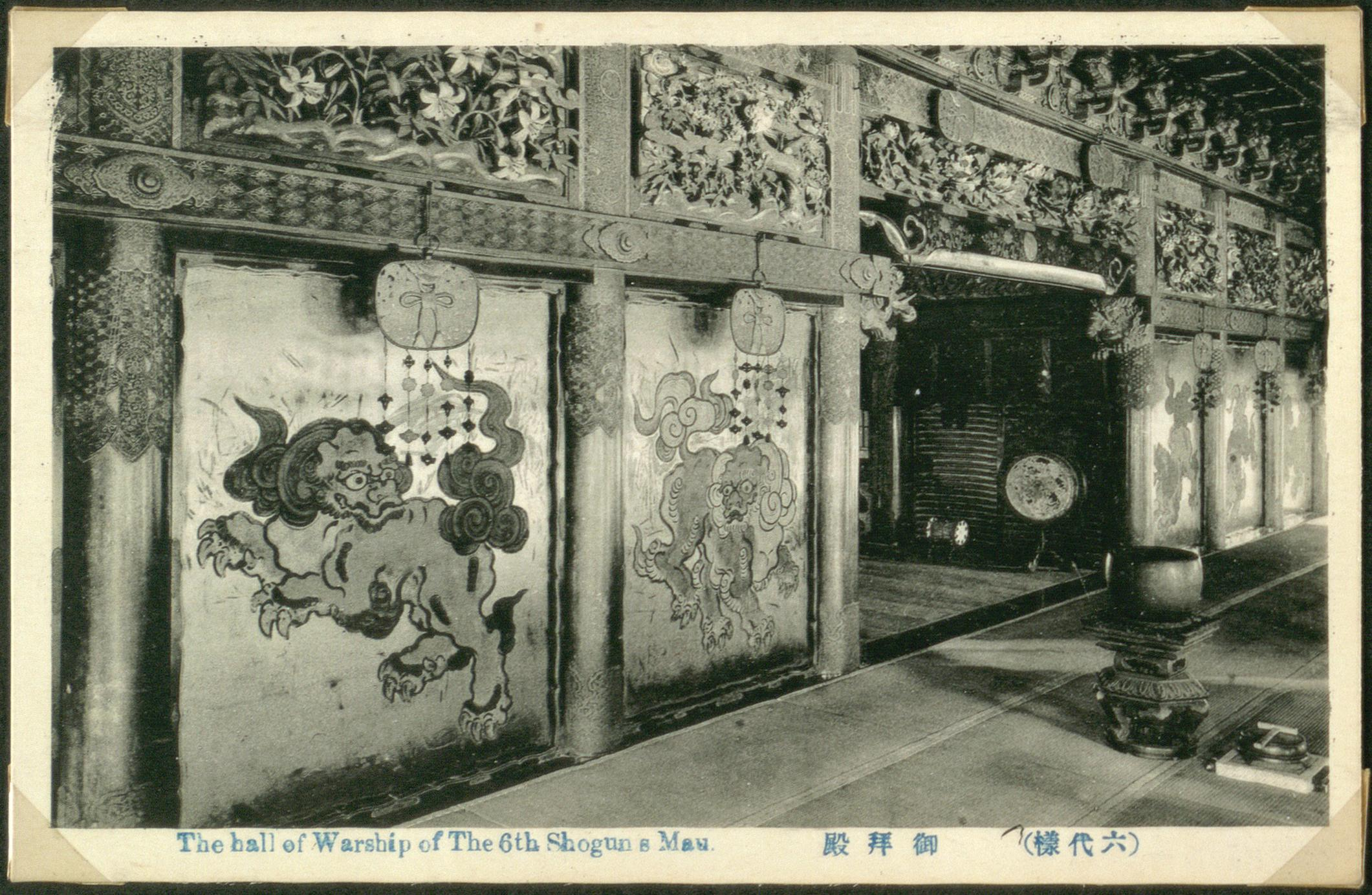 Postcard, which have belonged to Dr Kurt Wulff. No. es_b_00595